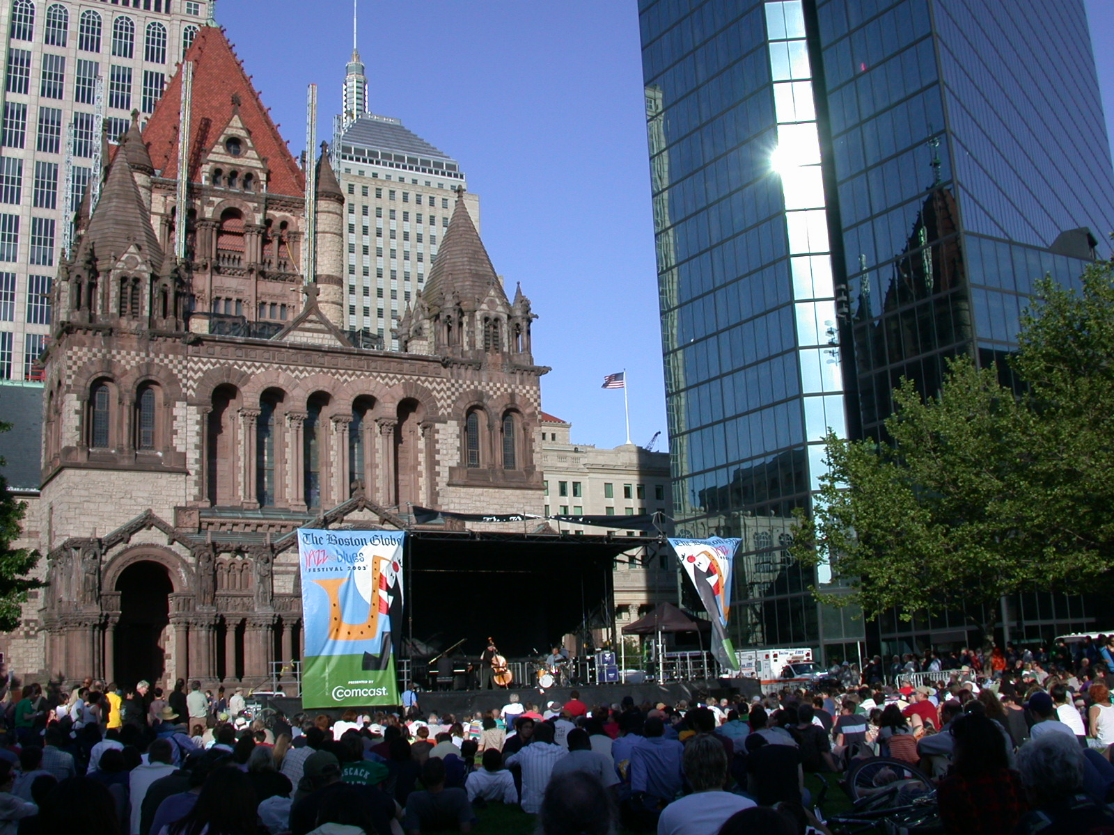 Boston, Mass.